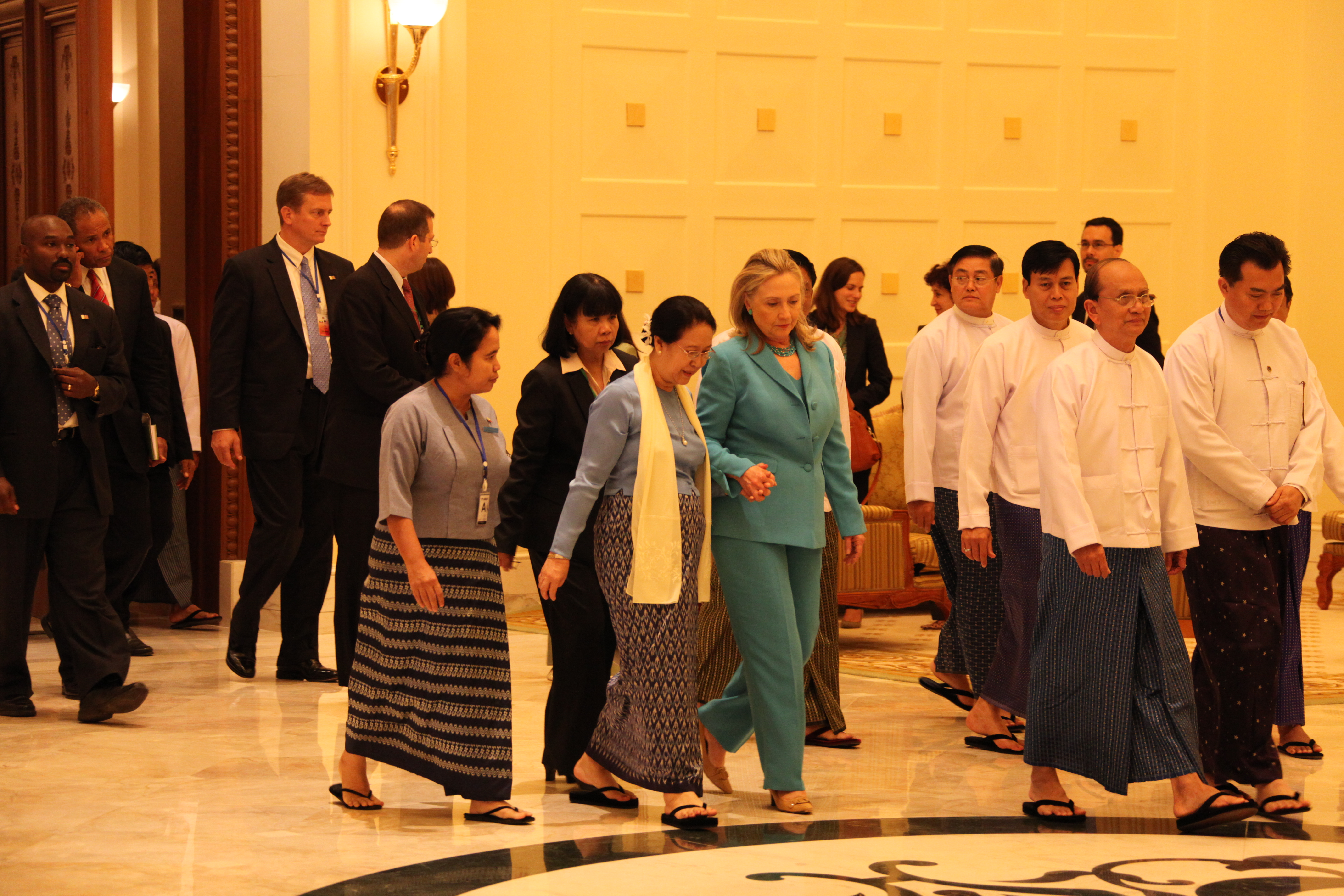 NAY PYI TAW, Burma (December 1, 2011) Secretary of State Hillary Clinton walks with Burmese First Lady Daw Khin Khin Win at the Office of the President in Nay Pyi Taw, Burma. [State Department photo by Scott Weinhold]